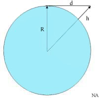 Earth bulge